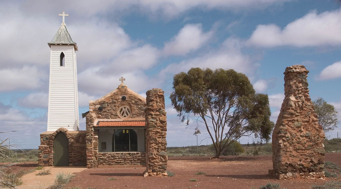 Mgr Hawes, 1922. The chimneys are all that remains of the timber convent.